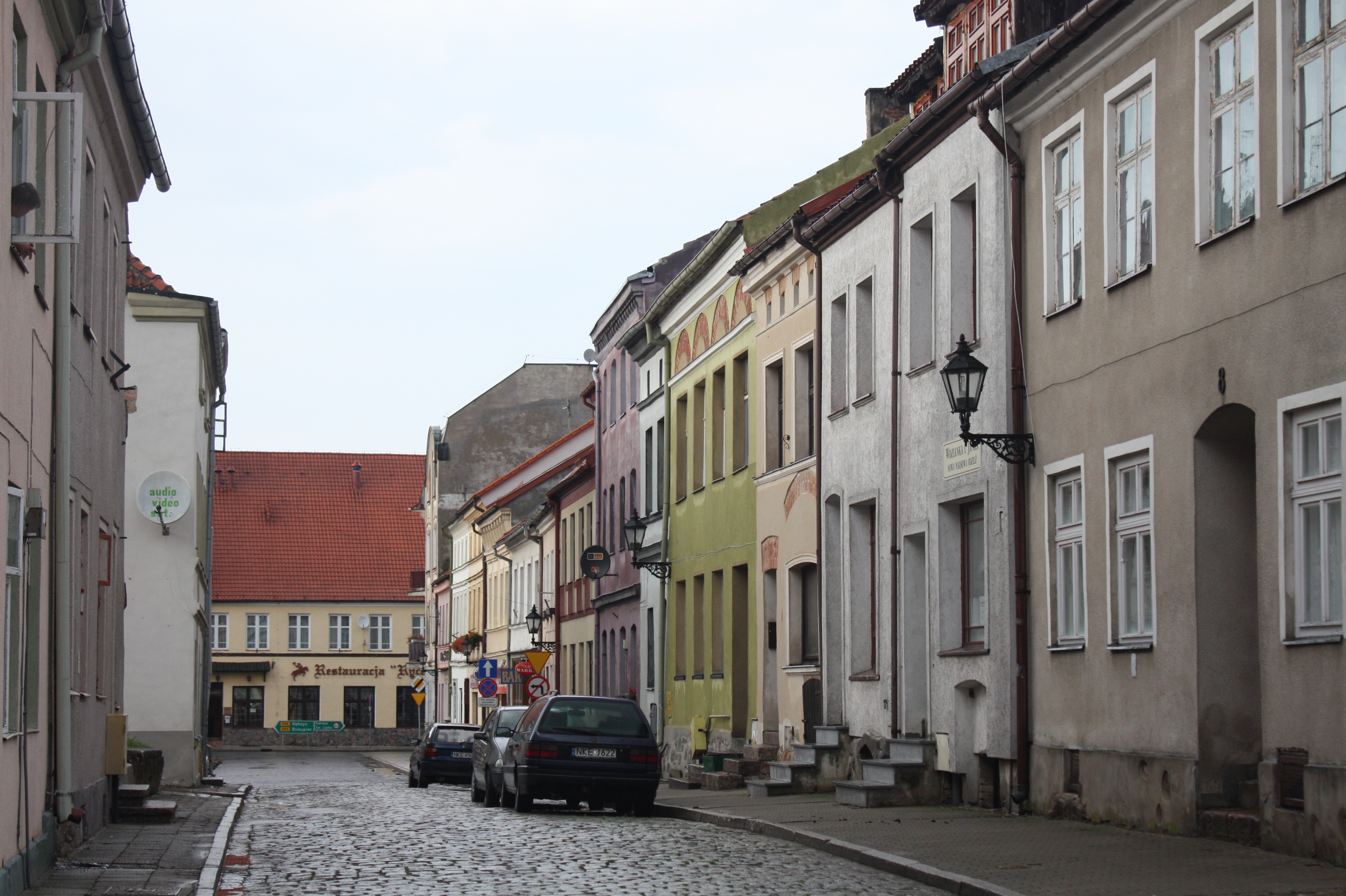 This photo of Warmian-Masurian Voivodeship was taken during Wikiexpedition 2012 set up by Wikimedia Polska Association. You can see all photographs in category Wikiekspedycja 2012. The making of this document was supported by Wikimedia Polska.